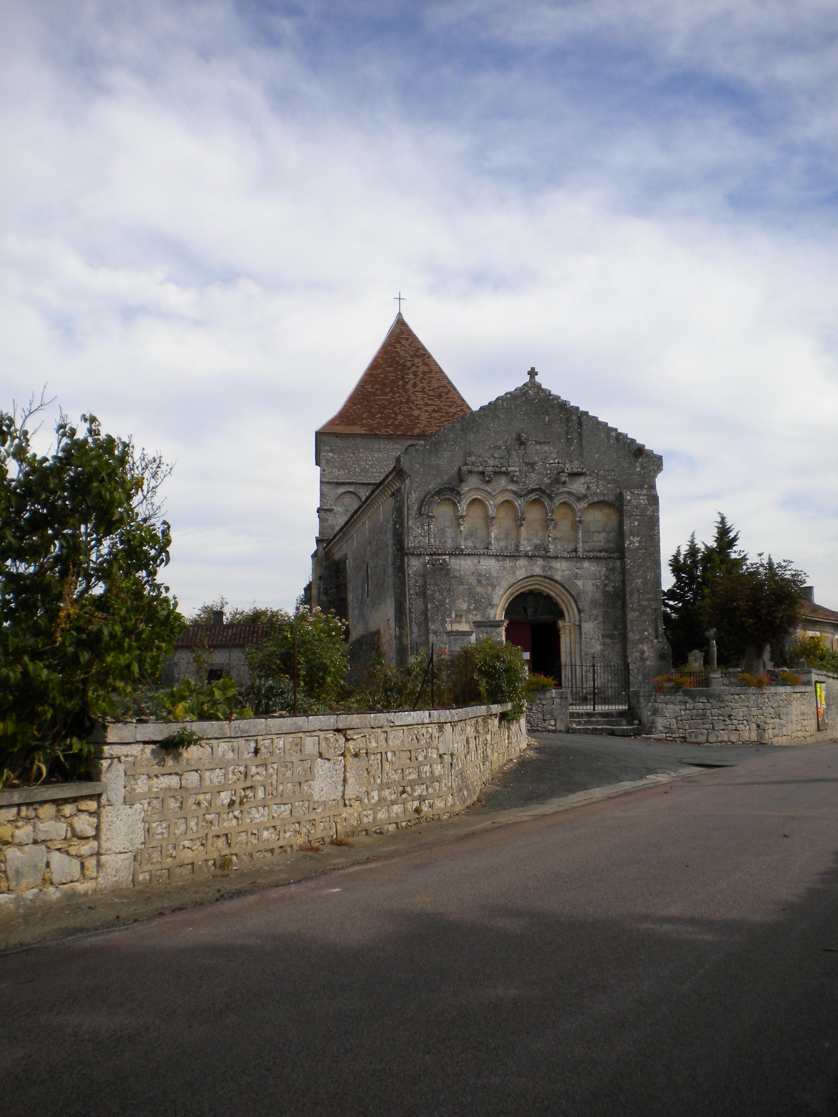 The romanesque village church of Les Graulges, Dordogne, France.